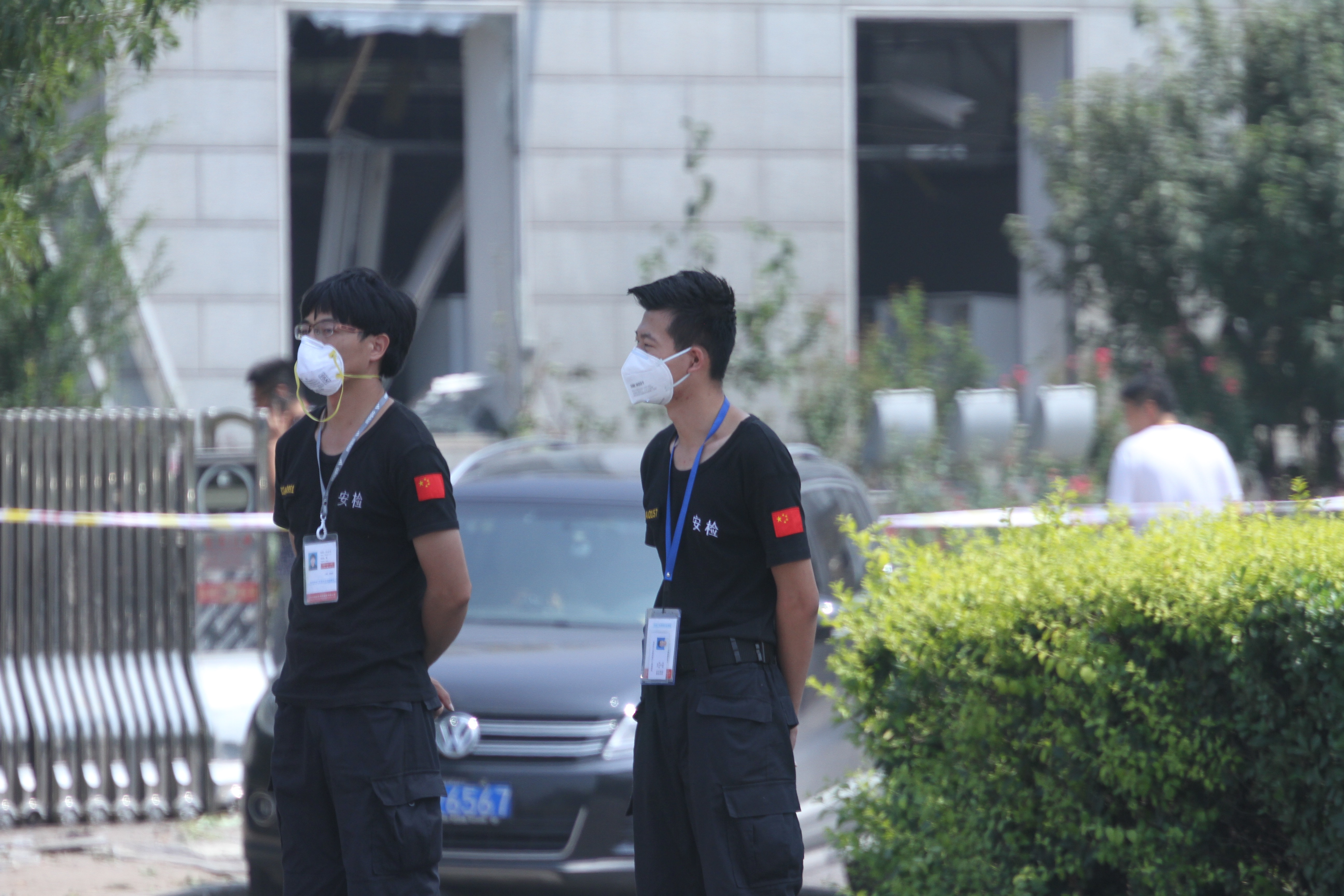 Two security inspectors (安检) wearing respirator, standing besides the barricade tape at the scene of the Tianjin explosion